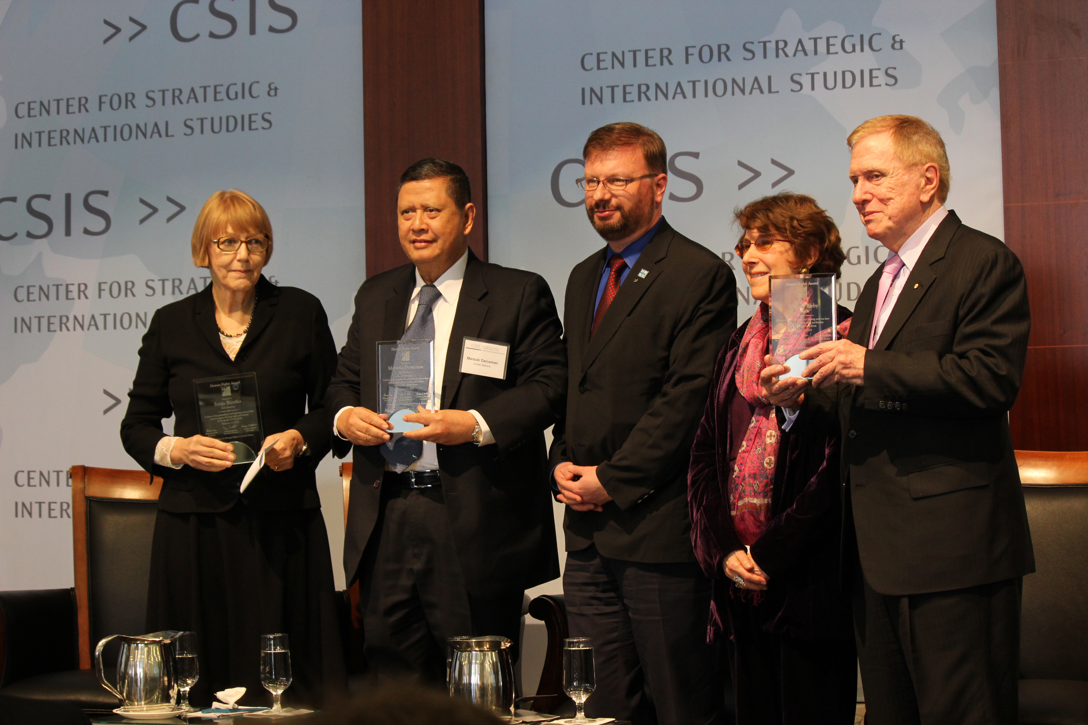 Sonja Biserko, Marzuki Darusman, and Michael Kirby were commissioners of the 2014 UN Commission of Inquiry on human rights in the Democratic People's Republic of Korea that found crimes against humanity have been and are currently being committed pursuant to the highest levels of the North Korean state. The image shows U.S. Committee for Human Rights in North Korea Co-Chair Roberta Cohen and Executive Director Greg Scarlatoiu present UN COI Commissioners (L to R) Sonja Biserko, Marzuki Darusman, and Michael Kirby with HRNK’s first Human Rights Award